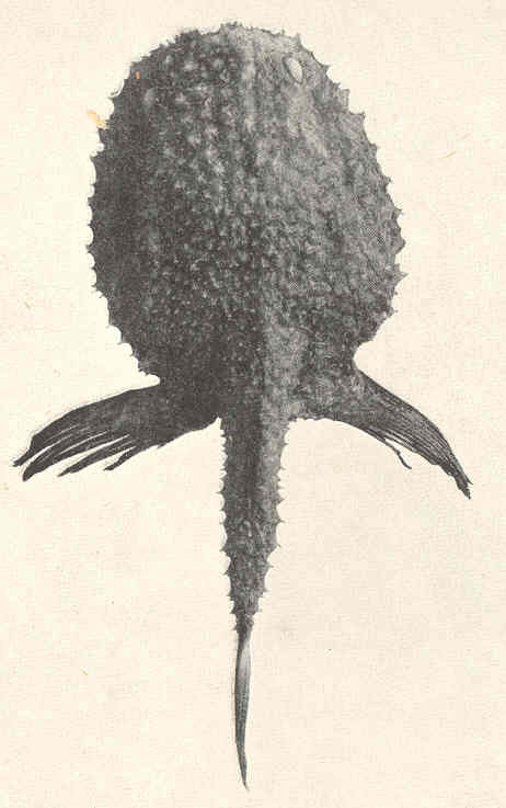 Dibranchus stellifer. From the type. Dorsal view Subject: Ogcocephalidae, Dibranchus Tag: Fish